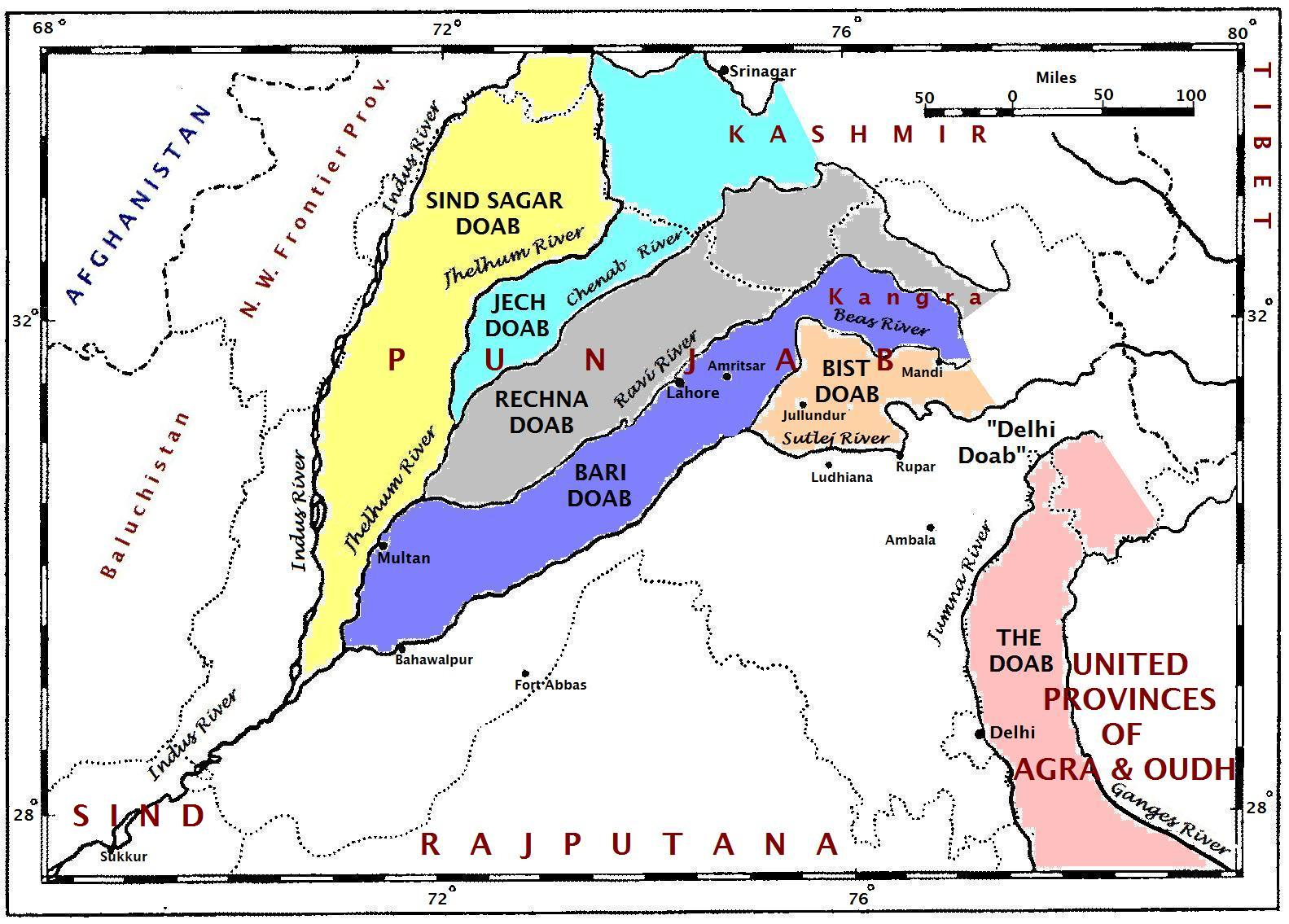 This map of the doabs is based on the map in the paper, "Partition of the Punjab and of Bengal," by O. H. G. Spate, The Geographical Journal, 110(4-6):201-218, November 1947. The journal was published in the United Kingdom.